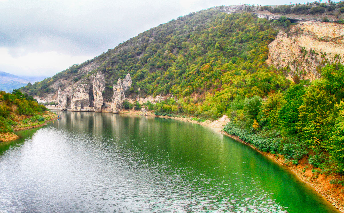 Pomorie bay